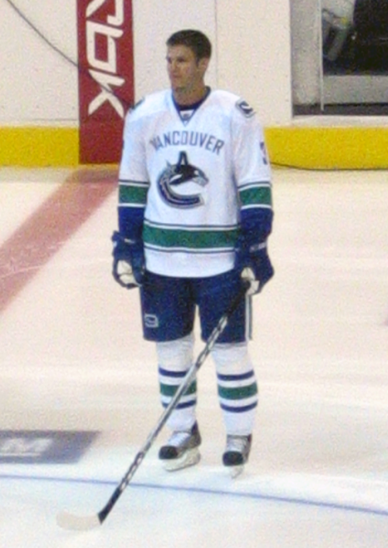 Kevin Bieksa of the Vancouver Canucks. Vancouver, BC, Canada